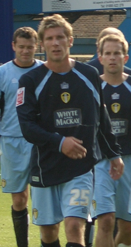 Richard Cresswell playing for Leeds United against Queens Park Rangers at Loftus Road, London on 17 September 2005